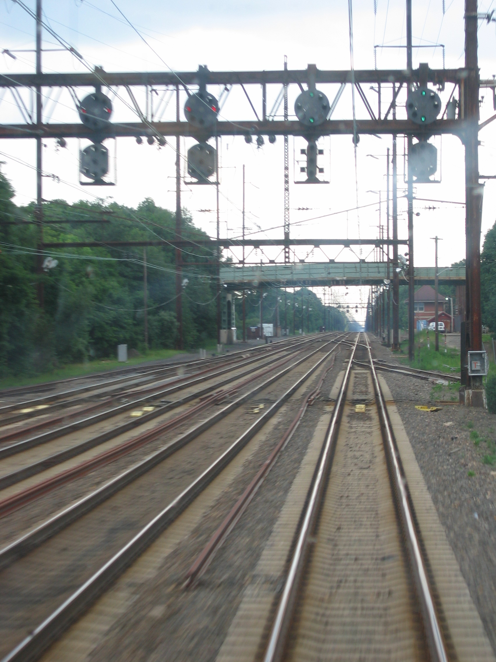 Midway Interlocking (Monmouth Junction) on Amtrak's Northeast Corridor, located in South Brunswick, New Jersey. At left is Conrail's Jamesburg Branch; at right is a short siding. The former interlocking tower is visible in the distance. Overhead is a signal bridge with color position light signals.